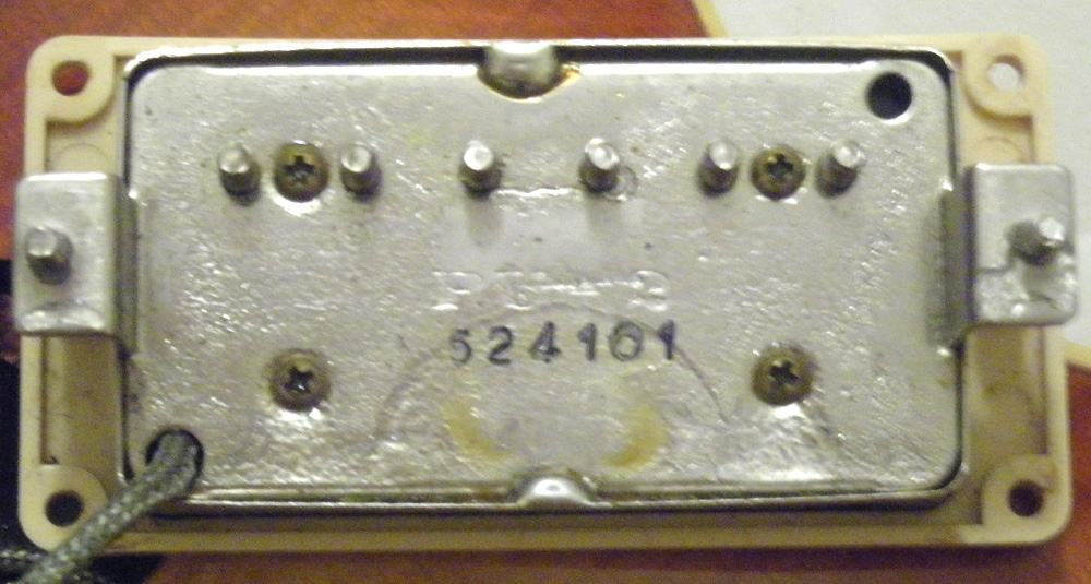 A 1981 Greco/Maxon PU-2 pickup.